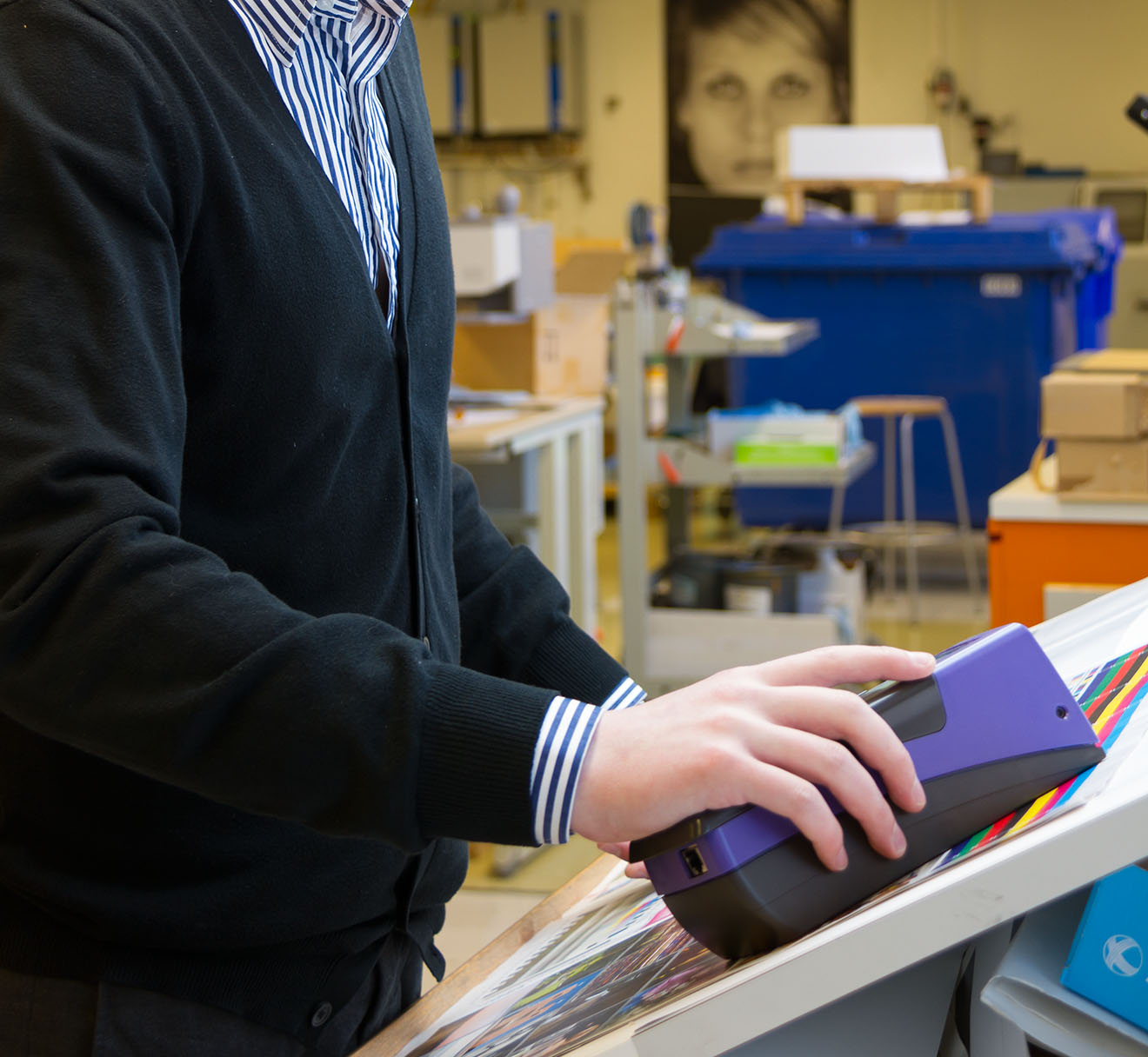 Spectrophotometer in graphical industry